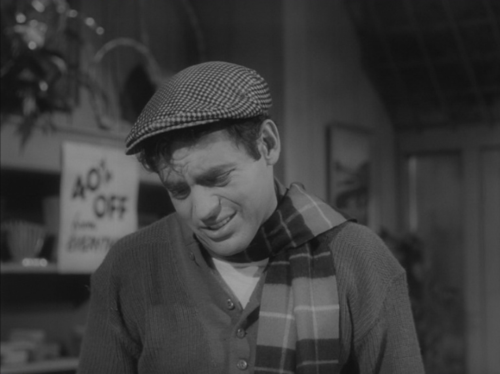 Profile image of actor Jonathan Haze, in the public domain film The Little Shop of Horrors.